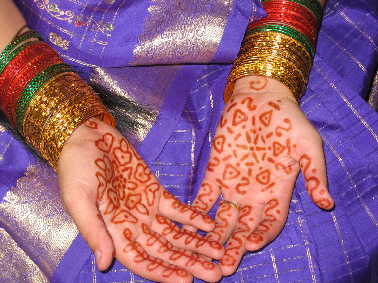 On August 20th, 2005 in Chennai, India my soon to be in-laws gave us a formal Indian engagement party. It looks like it was a wedding but it wasn't, it's how they do things. Very extravagate. This event was a huge blessing for me. I have never felt so love by another family. I only wish my family could have been there but at least I have a video of the whole thing to share. My soon to be in-laws made the whole thing happen in 3 days. Everything between invitations to a hired photographer. It was fantastic, beyond words can explain the emotions flowing. PS I even had fake black hair attached to my head. =)